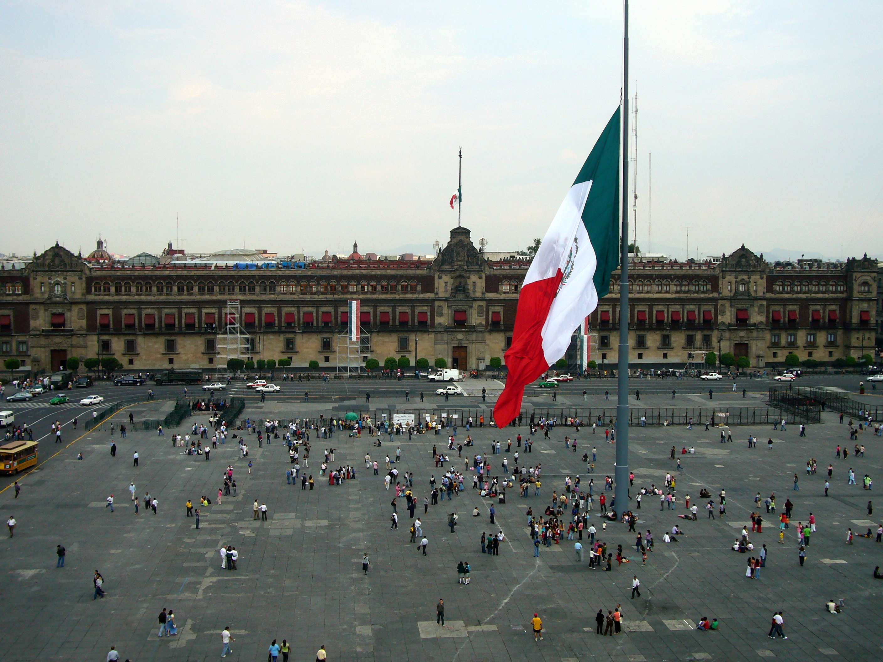 Plaza de la Constitución − Zócolo — in the Historic Center of Mexico City.